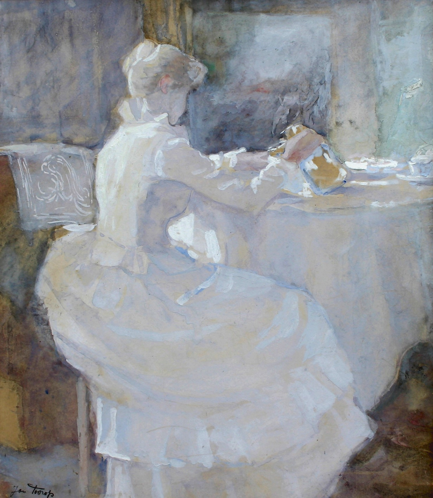 Annie Hall met melkkan